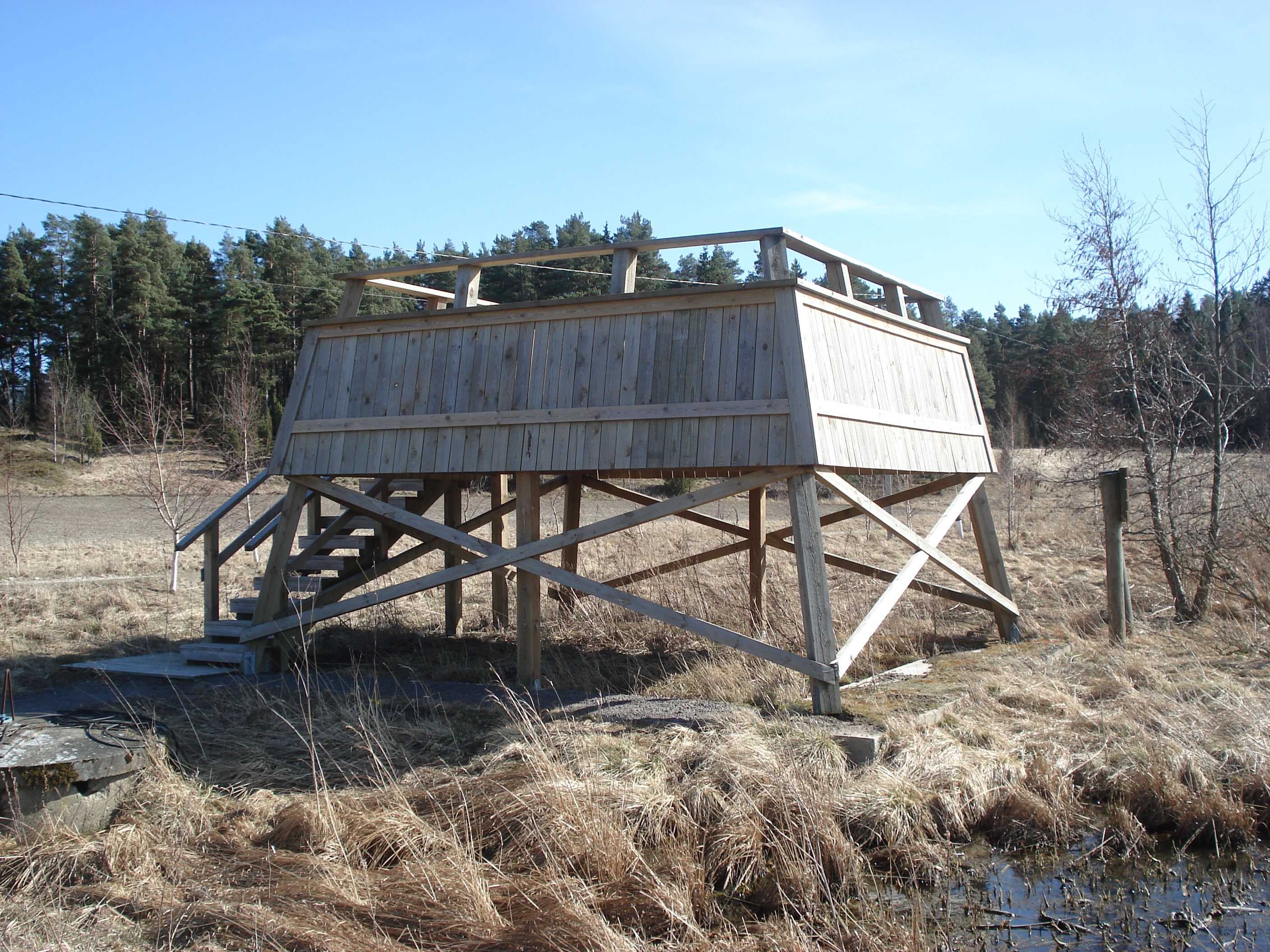 Luolalanjärvi is a lake in Naantali, Finland. In the picture is a bird watching tower located at lake NE-corner.